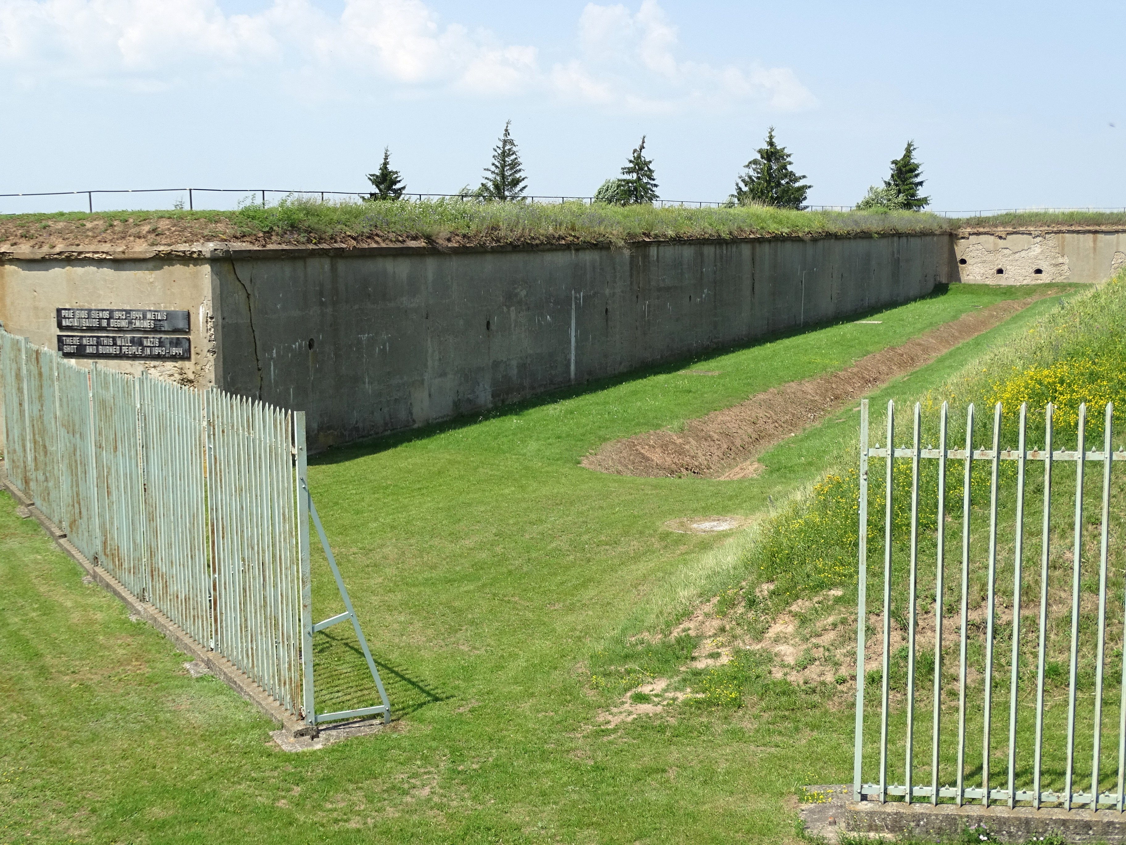 Ninth Fort - Nazi Genocide Site - Kaunas - Lithuania - 04